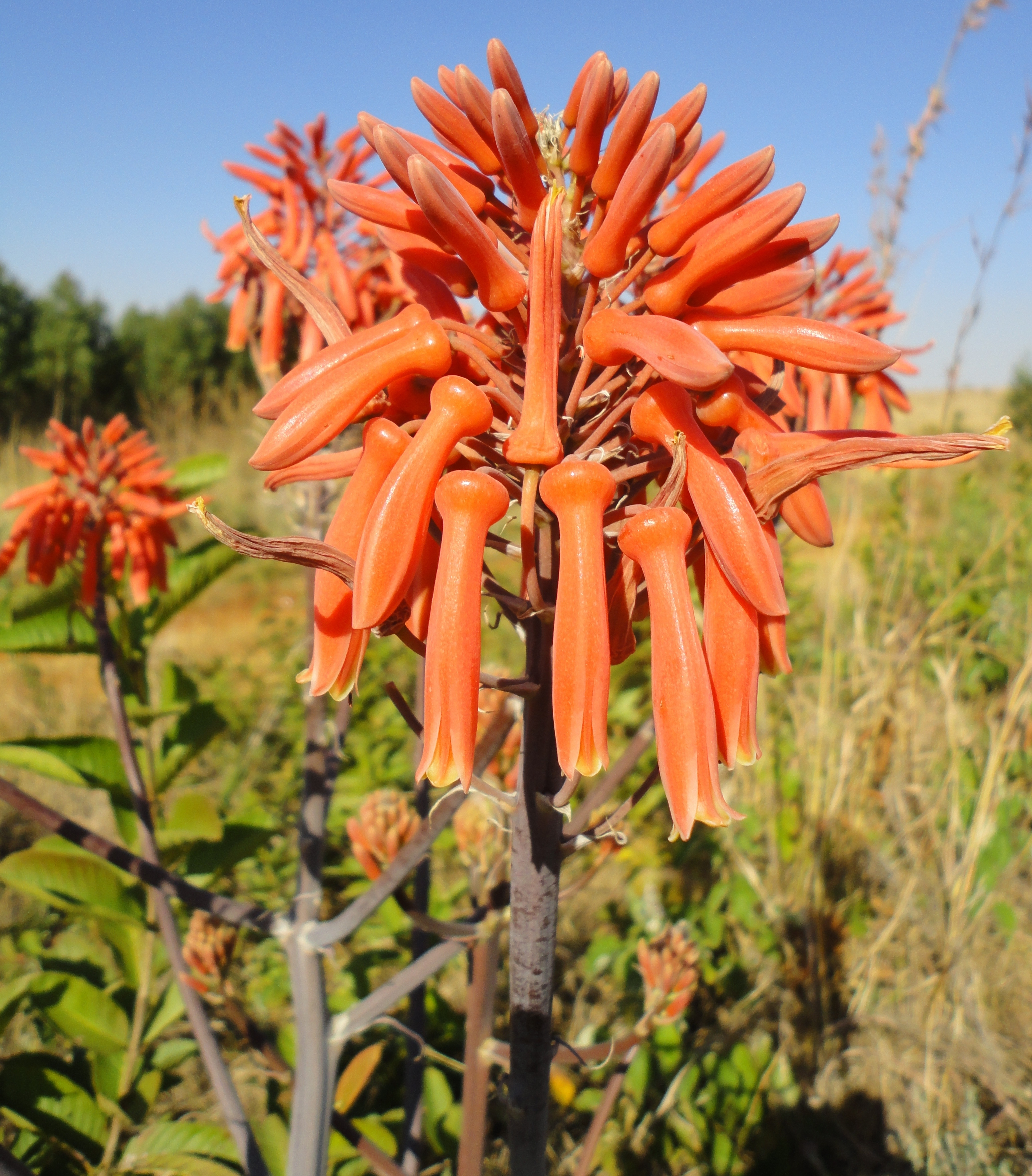 Inflorescence of a Spotted Aloe, near Louwsburg, KwaZulu-Natal